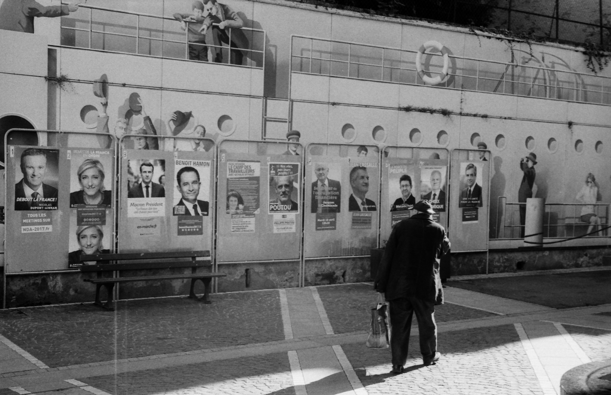 Election posters at Évian-les-Bains (scan from negative, Ilford HP5 plus 400, Leica IIIc, Summitar 5 cm f/2).